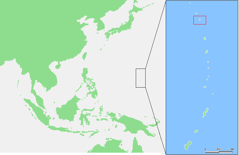 Mariana Islands - Ascuncion Island.PNG